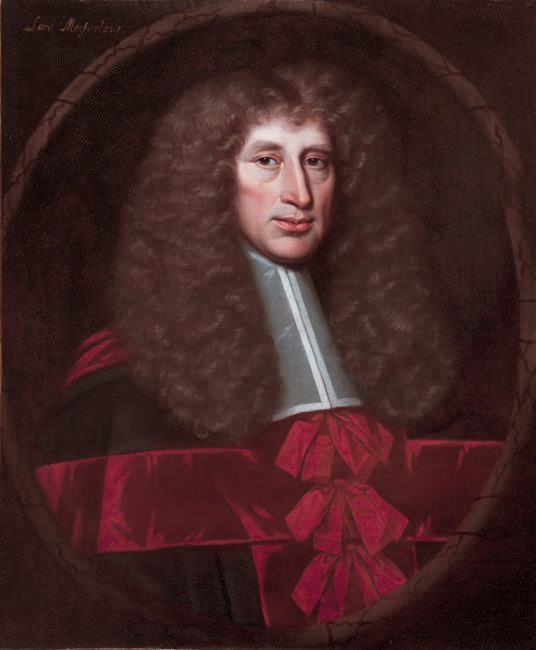 John Nisbet, Lord Dirleton oil on canvas 73,7 x 67,3 cm 1680 - 1685 inscribed t.l.: Lord Macfarlane